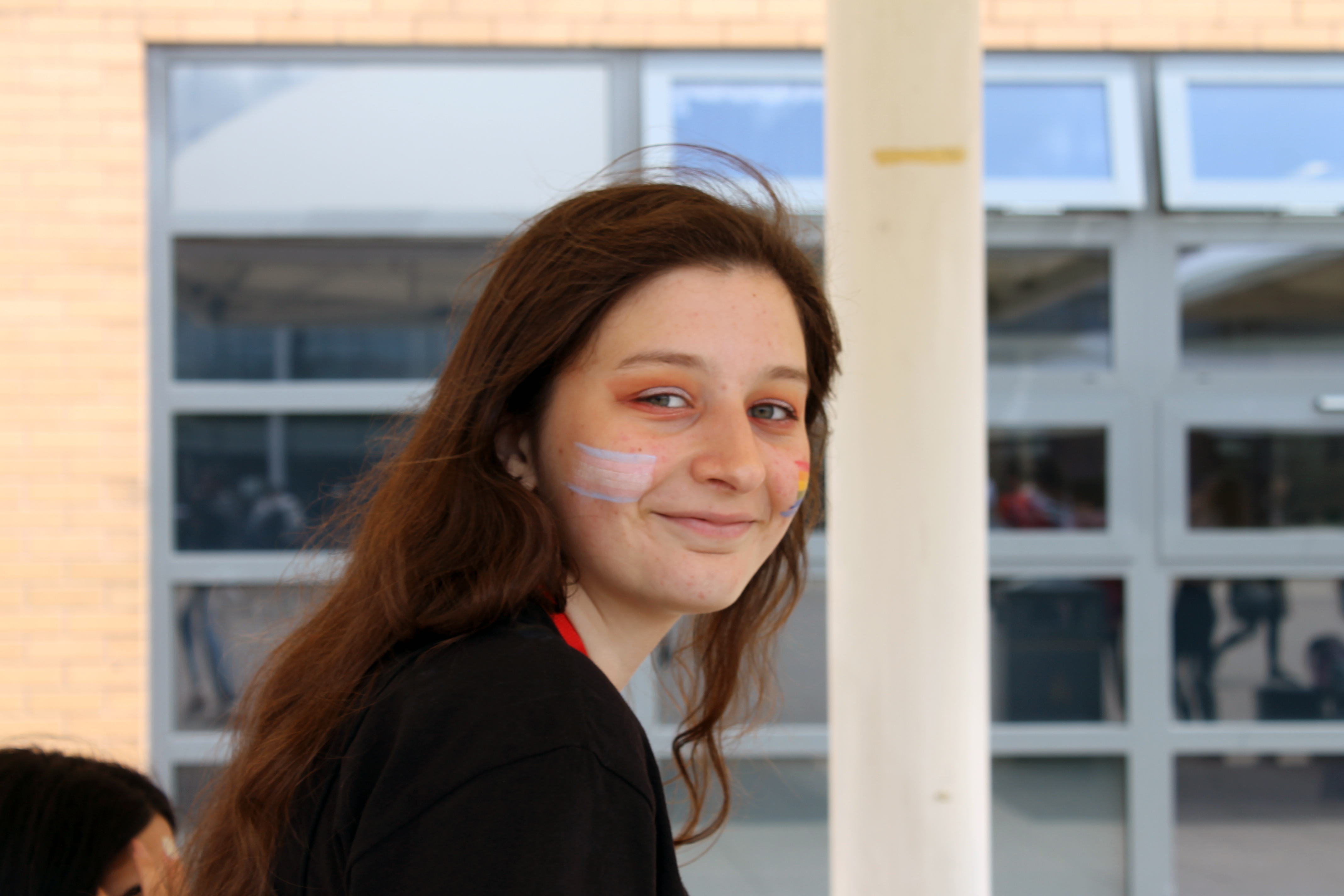 Student fundraising at Nottingham Academy Pride 2019.